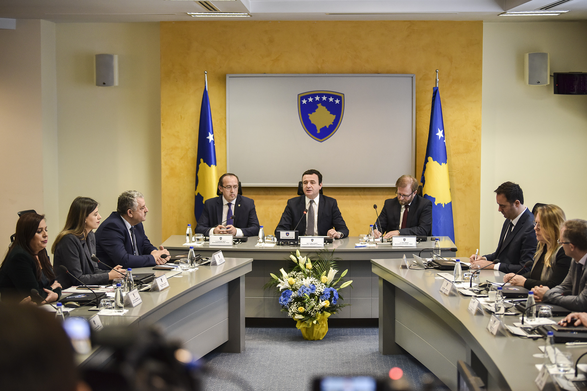 The first meeting of the Government of the Republic of Kosovo